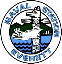 Naval Station Everett seal